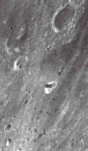 Biot lunar crater as seen from Earth with satellite craters labeled